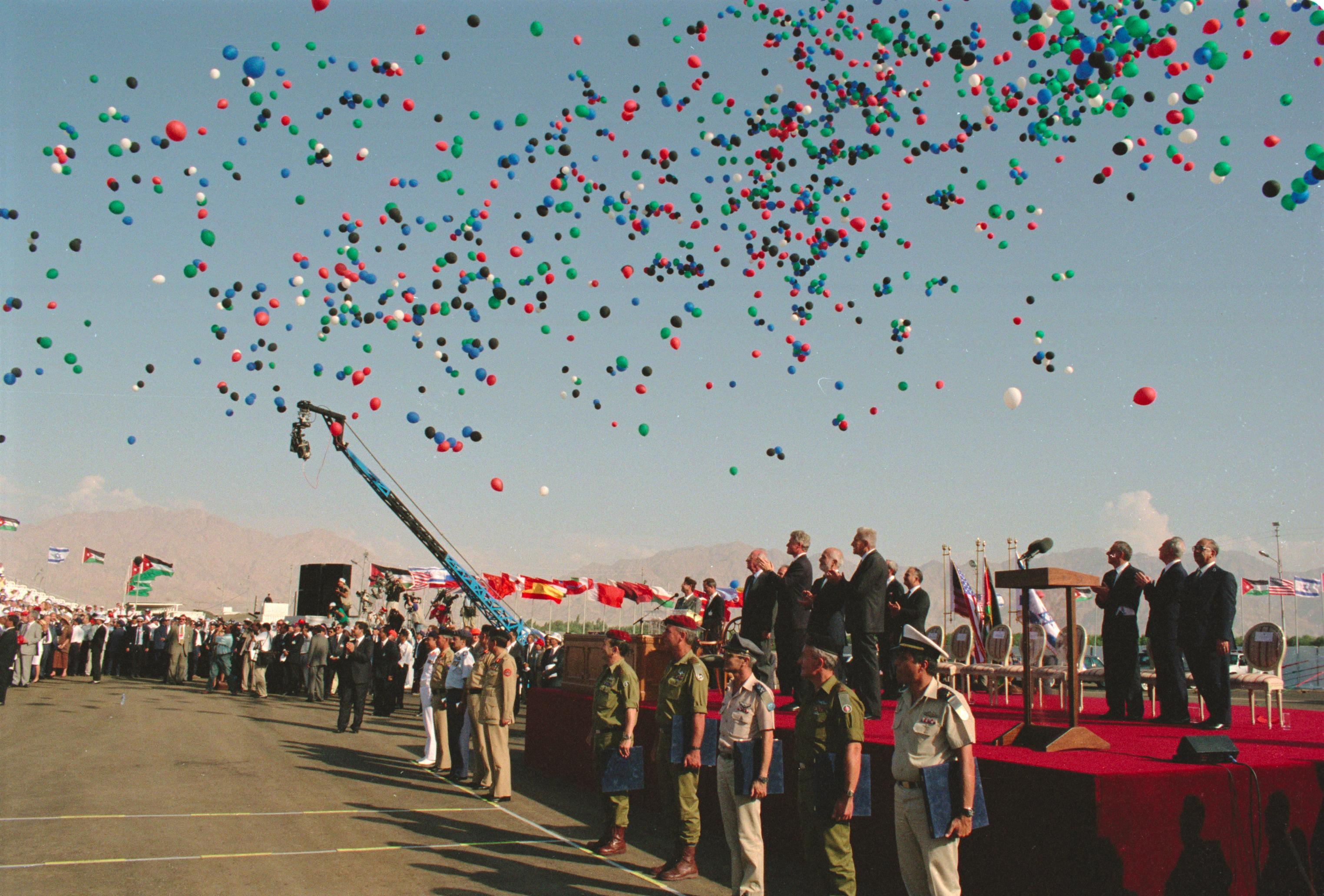 Balloons released into the air during the Israel-Jordan Peace Treaty signing ceremony at the Arava Terminal. בלונים מופרחים לאוויר במהלך טקס חתימת הסכם השלום בין ישראל וירדן ליד העיר אילת Photo: Yaakov Saar (1951–) Alternative names SA'AR YA'ACOV; Jacob Saar; Saʻar, YaʻaḳovDescriptionIsraeli photographerDate of birth 1951 Authority control : Q28751896 VIAF: 298161188 NLI: 001394176 creator QS:P170,Q28751896 , 10/26/1994